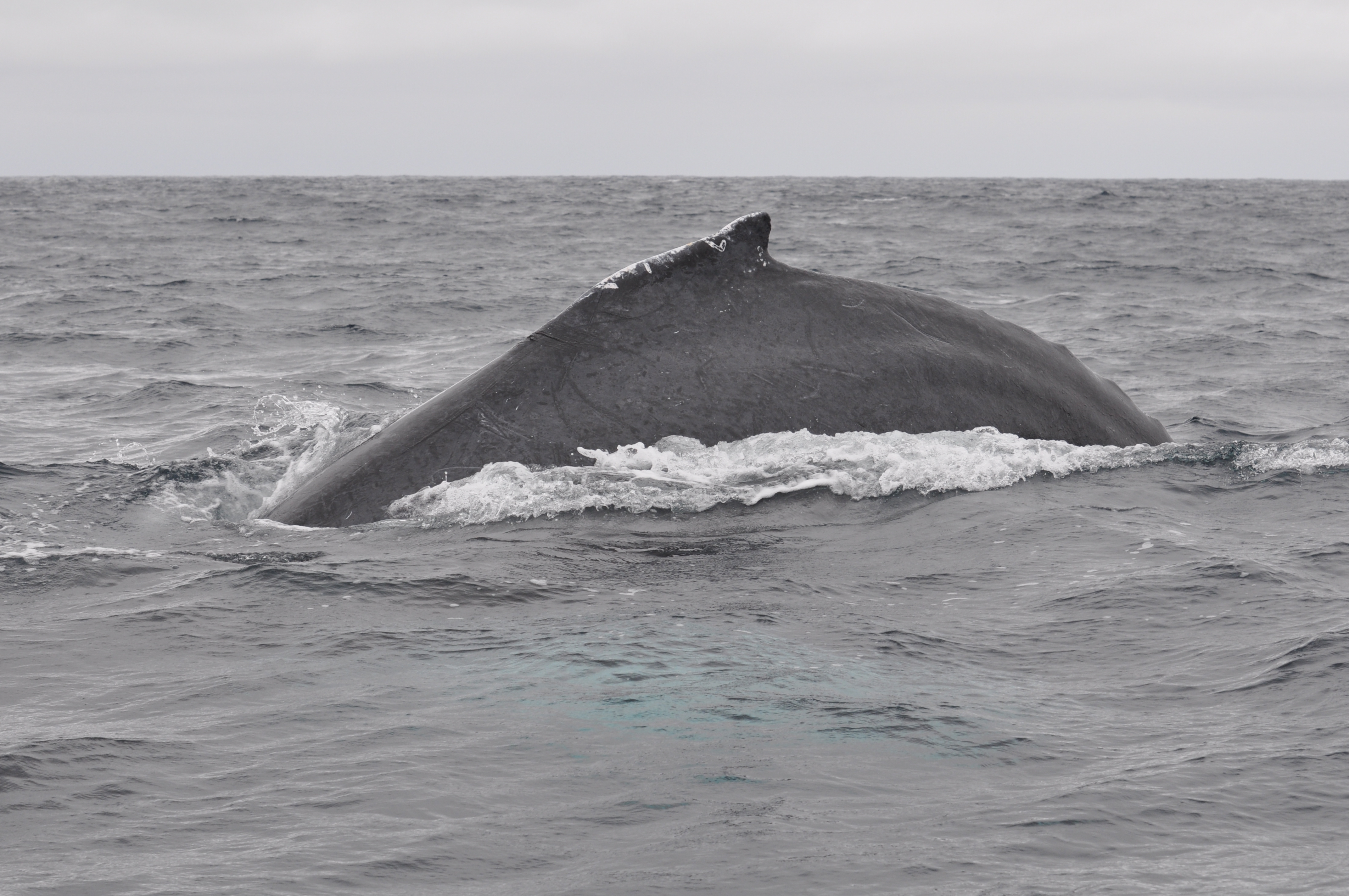 Picture of humpback whale clearly showing the hump. Picture taken off the Ecuadorian coast in September 2011.